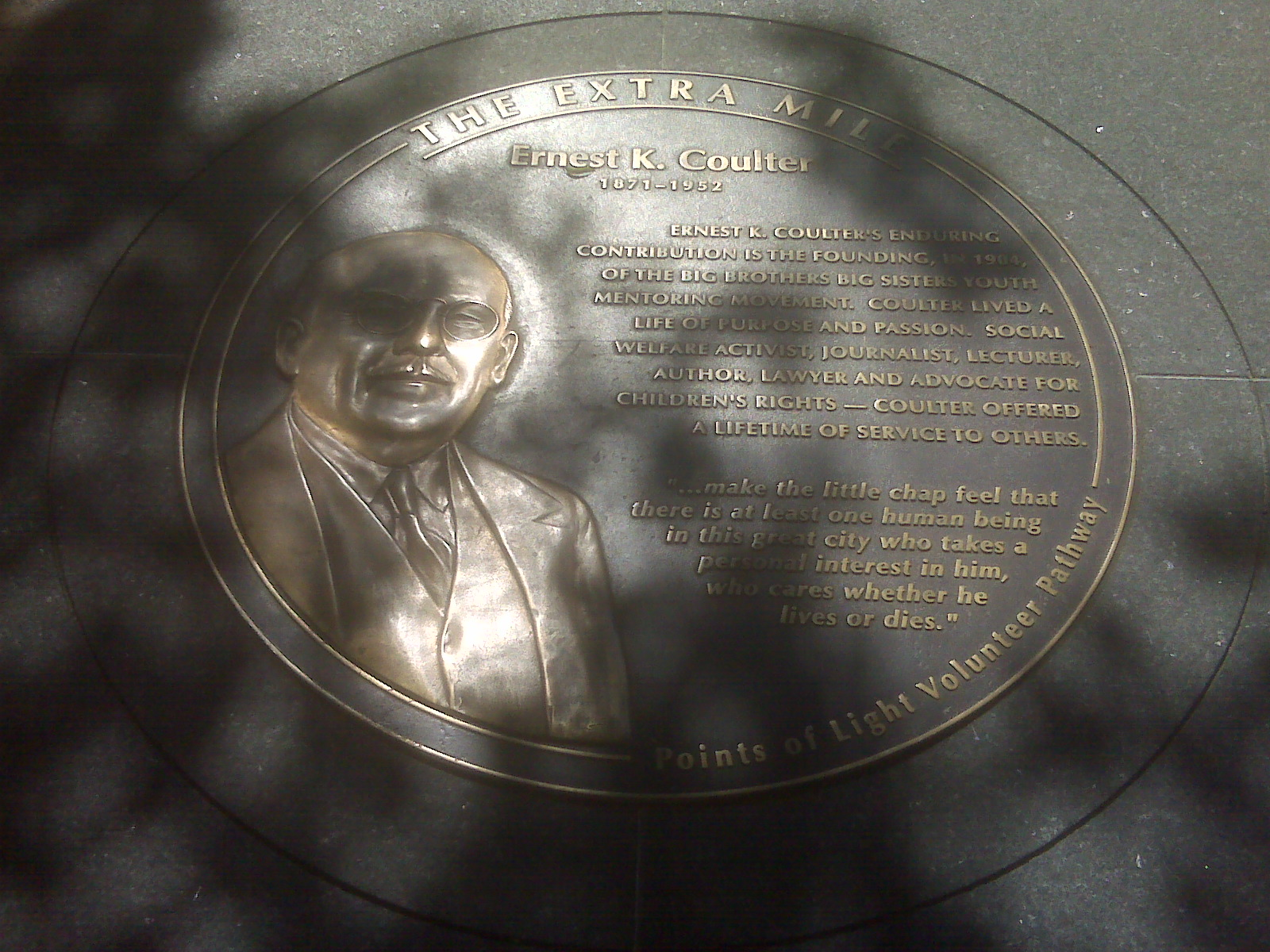 Ernest K Coutler honoree medallion located on The Extra Mile memorial beginning at the corner of Pennsylvania Avenue and 15th Street, NW and continues north on 15th Street to G Street, NW. There, it turns east on G Street for two blocks to its intersection with 13th Street, in Washington, DC.